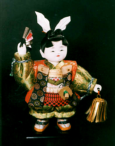 Momotaro Japanese traditional doll. Created after 1945, before 2005